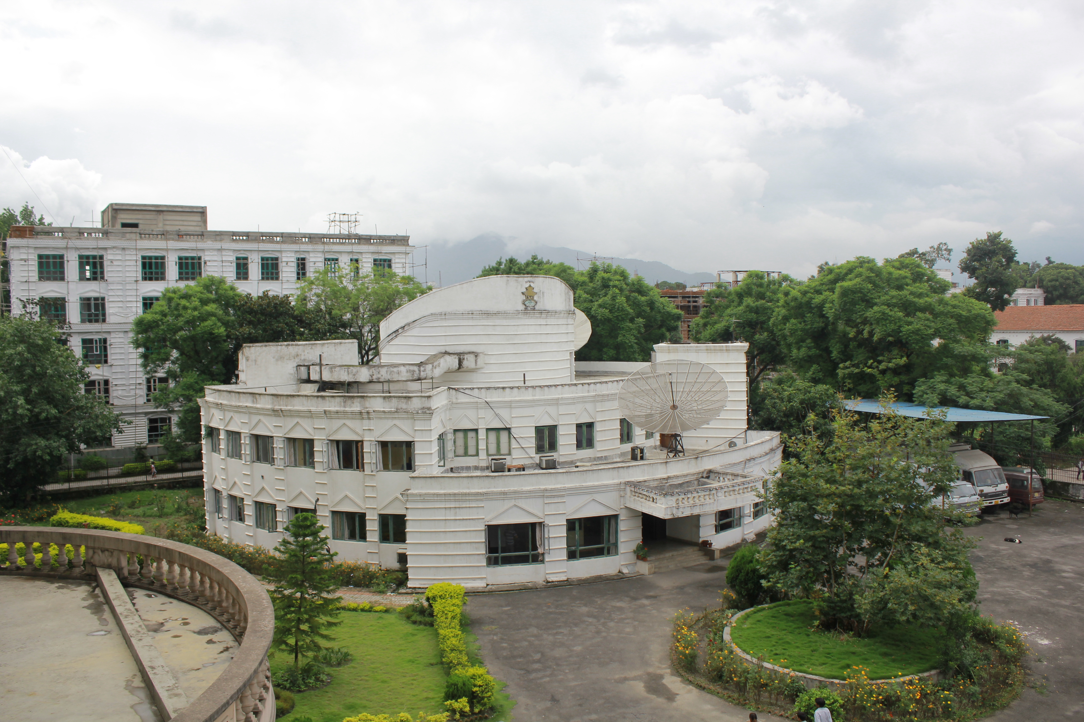 This is the main building of Nepal Television. This contains administrative parts of the National Television Broadcaster.